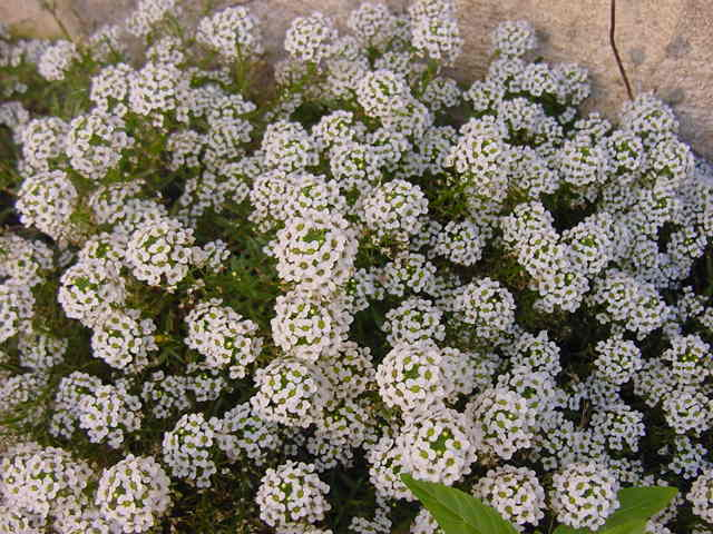 Sweet Alyssum (Lobularia maritima) taken by User:CatherineMunro